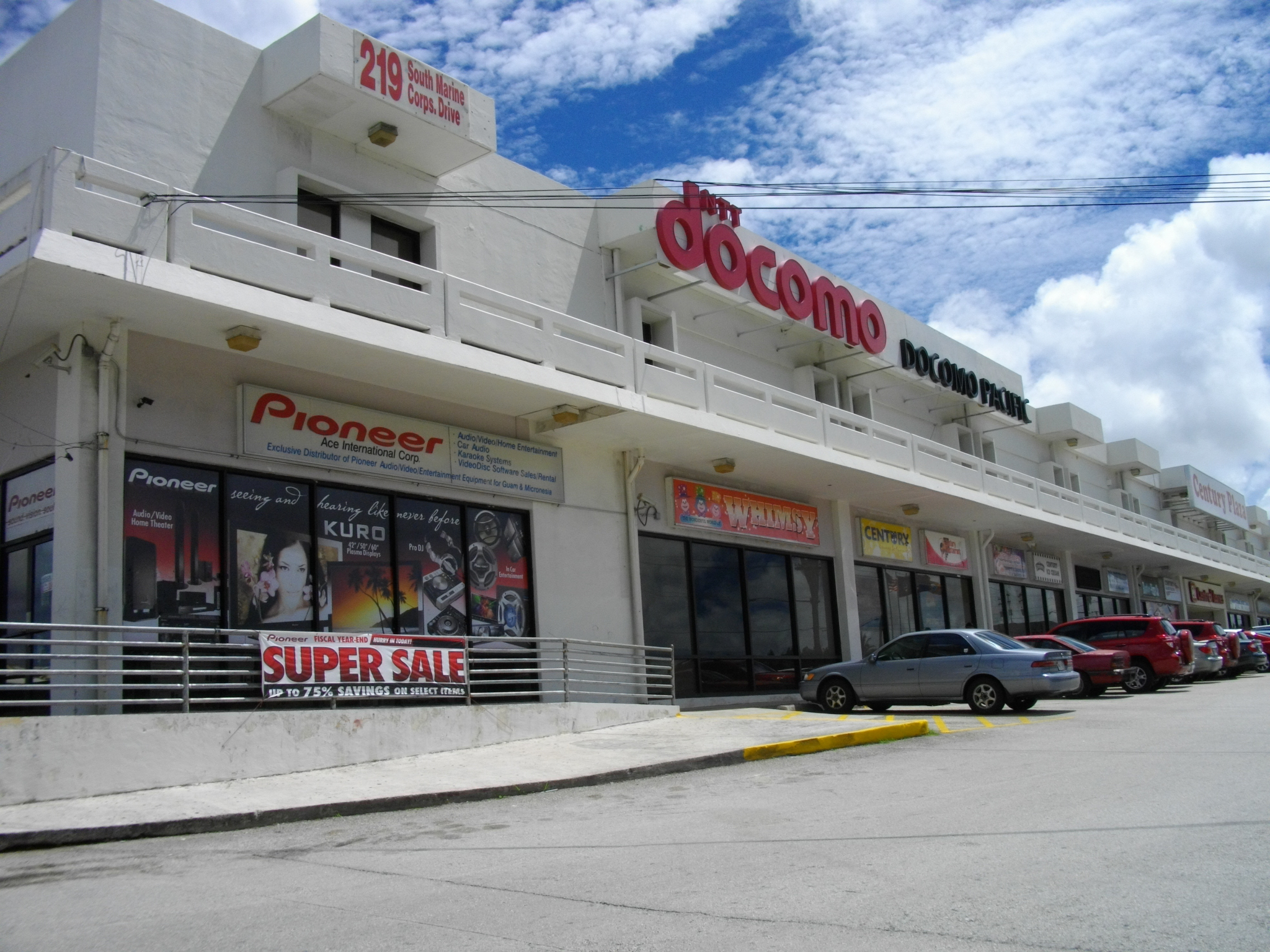 Guam Century Plaza